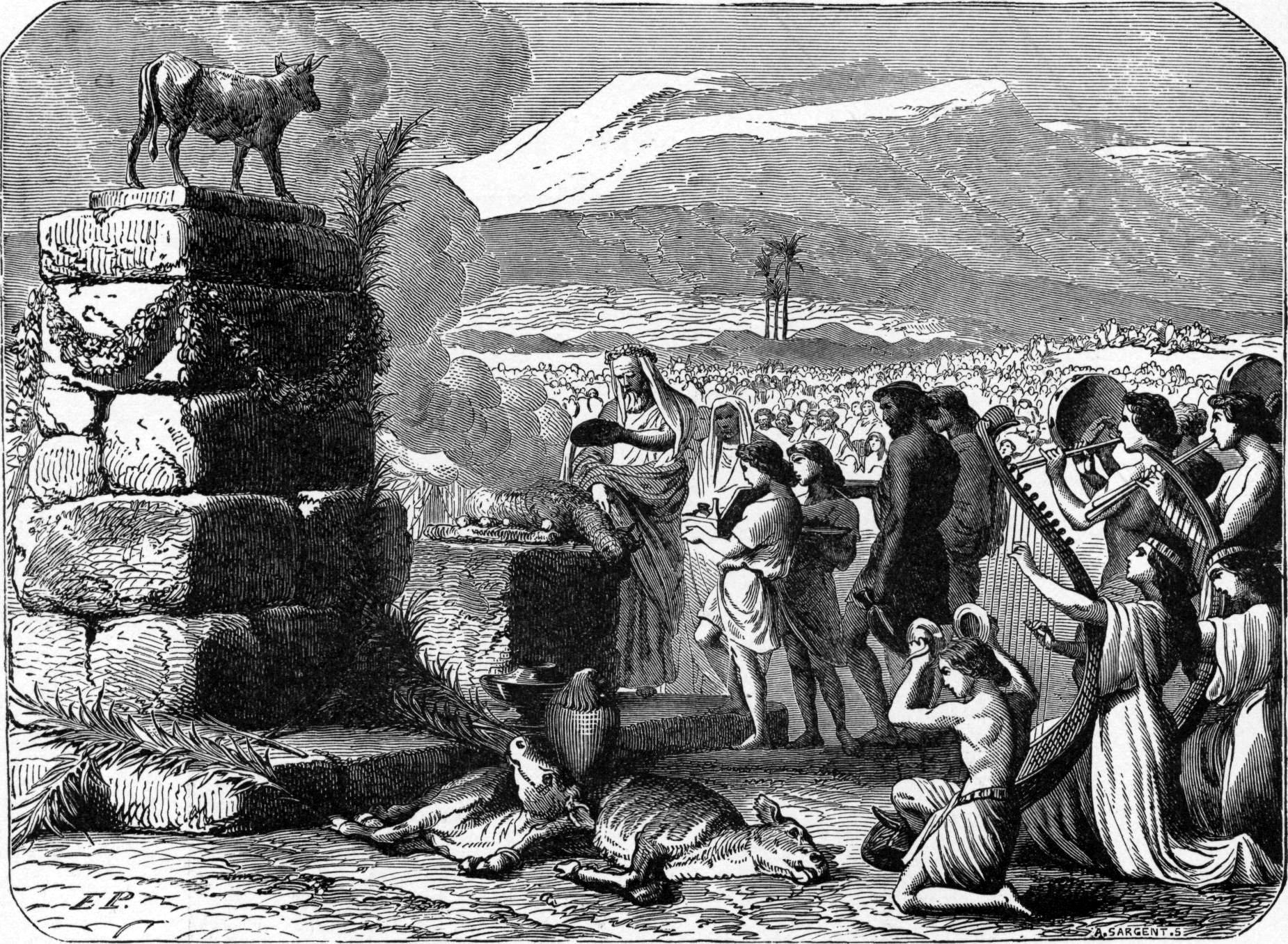 Praying to a Golden Idol. Caption: "What are these people doing ? They are praying to a golden idol. They have made it in the shape of a calf, and are bowing down to it, and asking it to help them. The people are Israelites. God helped them when they lived in Egypt. When Pharaoh was cruel to them and made them work very hard, God made Pharaoh let the Israelites go. God made the Red Sea dry for the Israelites to pass through. He gave them water to drink and manna to eat in the wilderness. Yet now they have forgotten God and are bowing down and praying to an idol which they made themselves. They are doing like the heathen people who are their enemies, and who live in the country they are passing through." Illustration from the 1897 Bible Pictures and What They Teach Us: Containing 400 Illustrations from the Old and New Testaments: With brief descriptions by Charles Foster